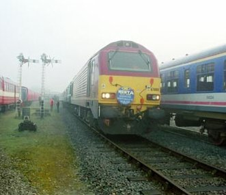 NENTA charter service from Dereham to York